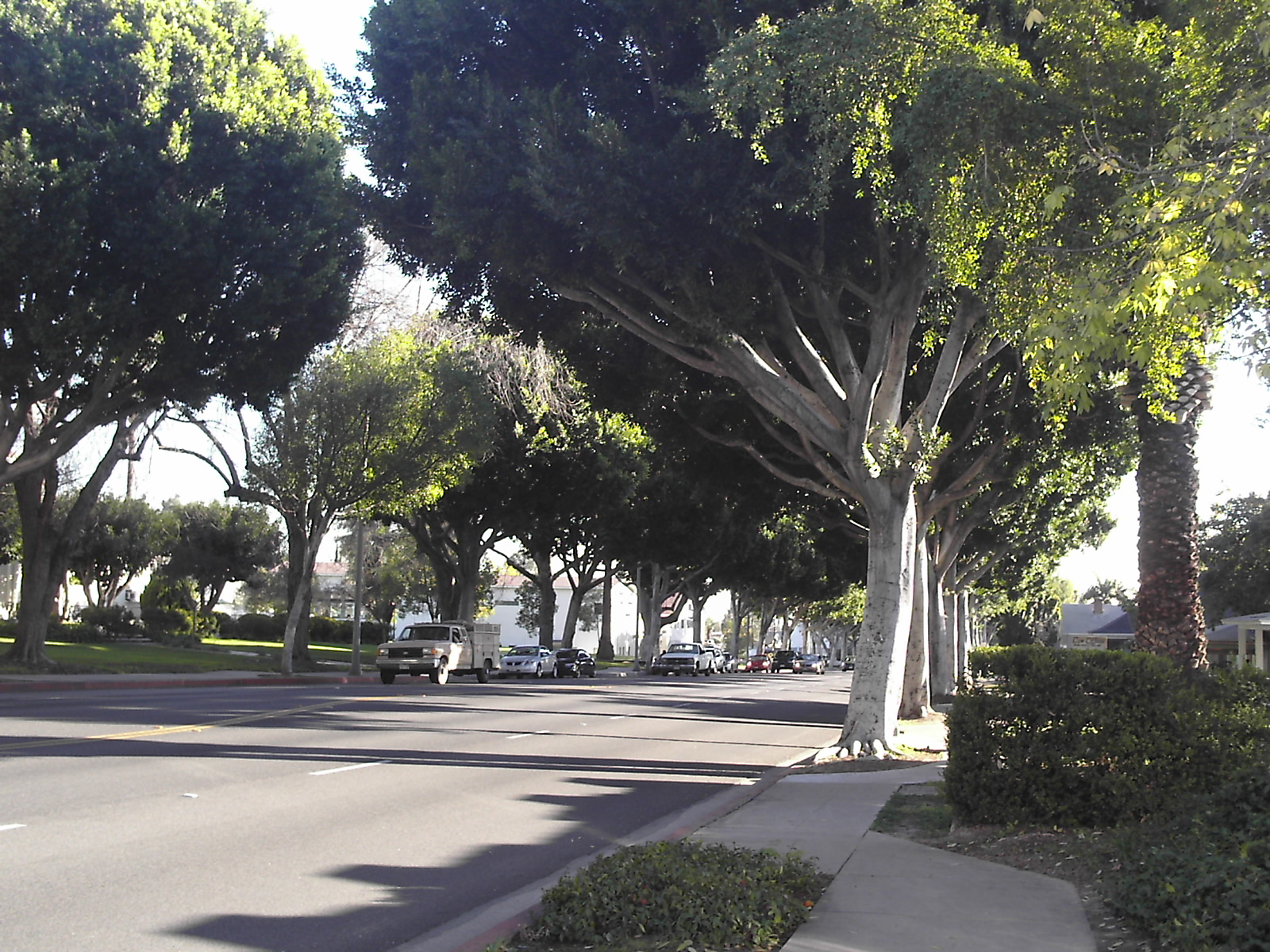 Painter Ave in Uptown Whittier, California